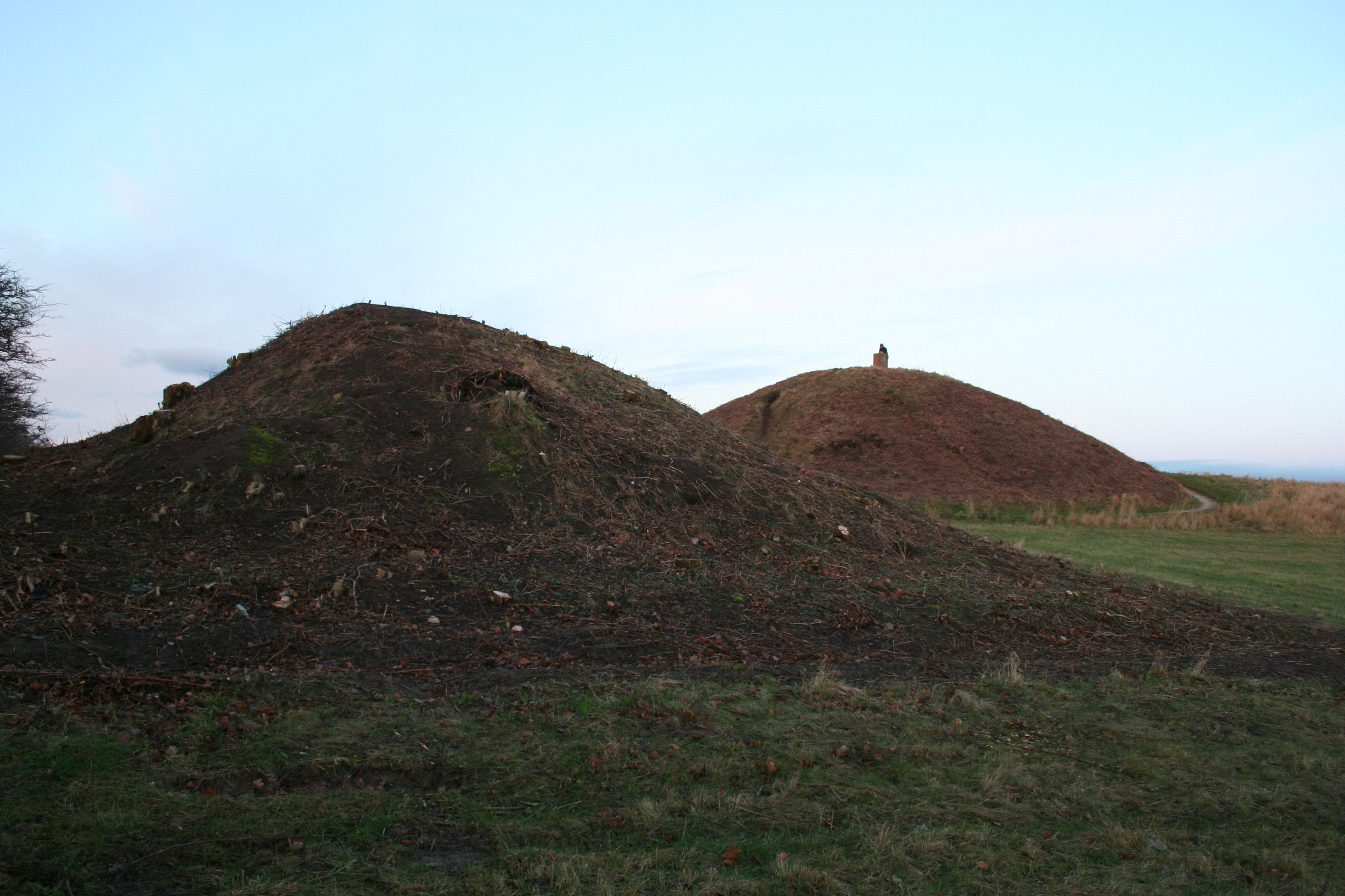 The barrow Little Maglehøj, Frederiksværk, Denmark, according to a recently completed reduction of vegetation. In the background the barrow Maglehøj.